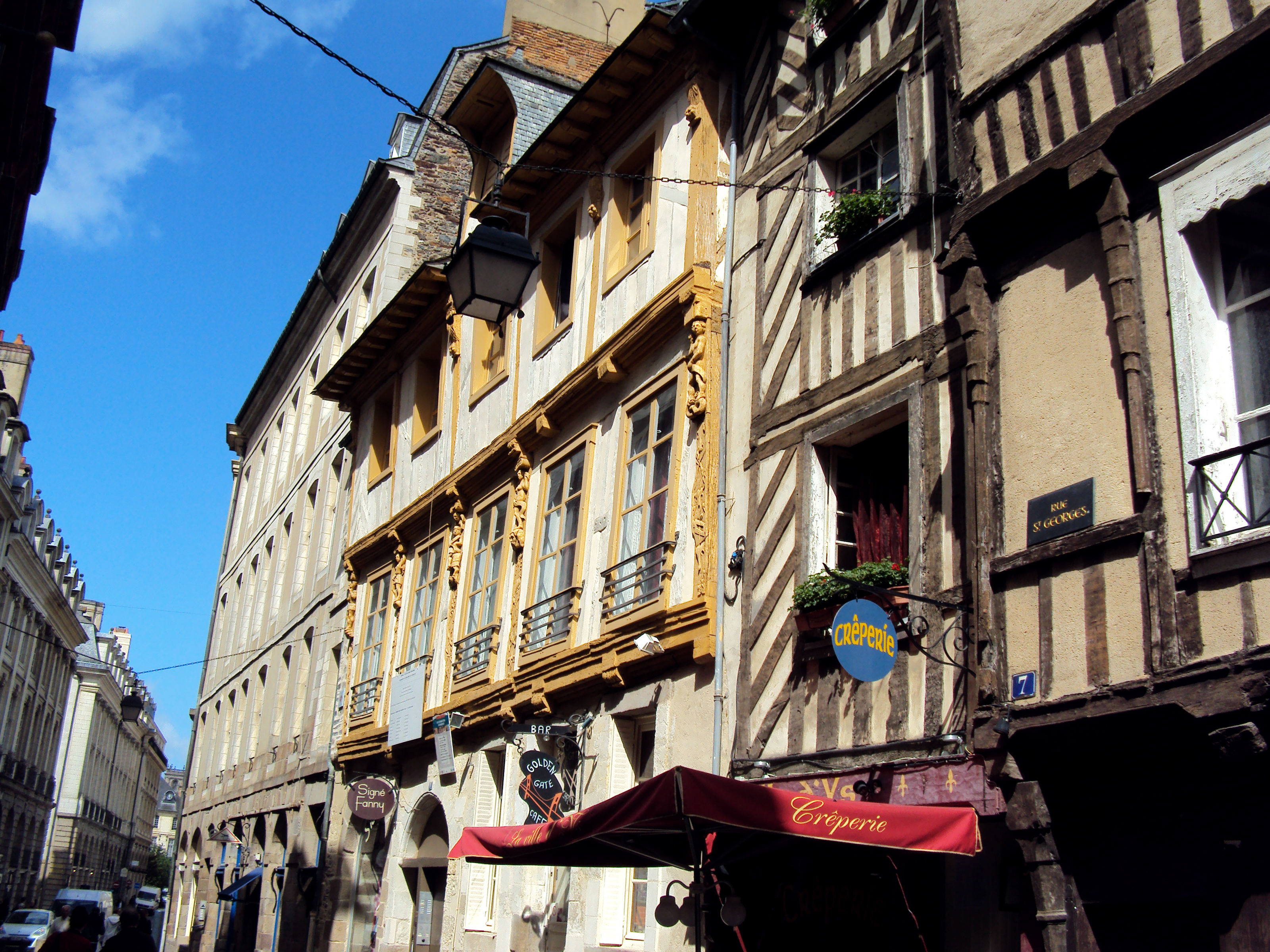 View of St-Georges street in summer in Rennes city center - Brittany